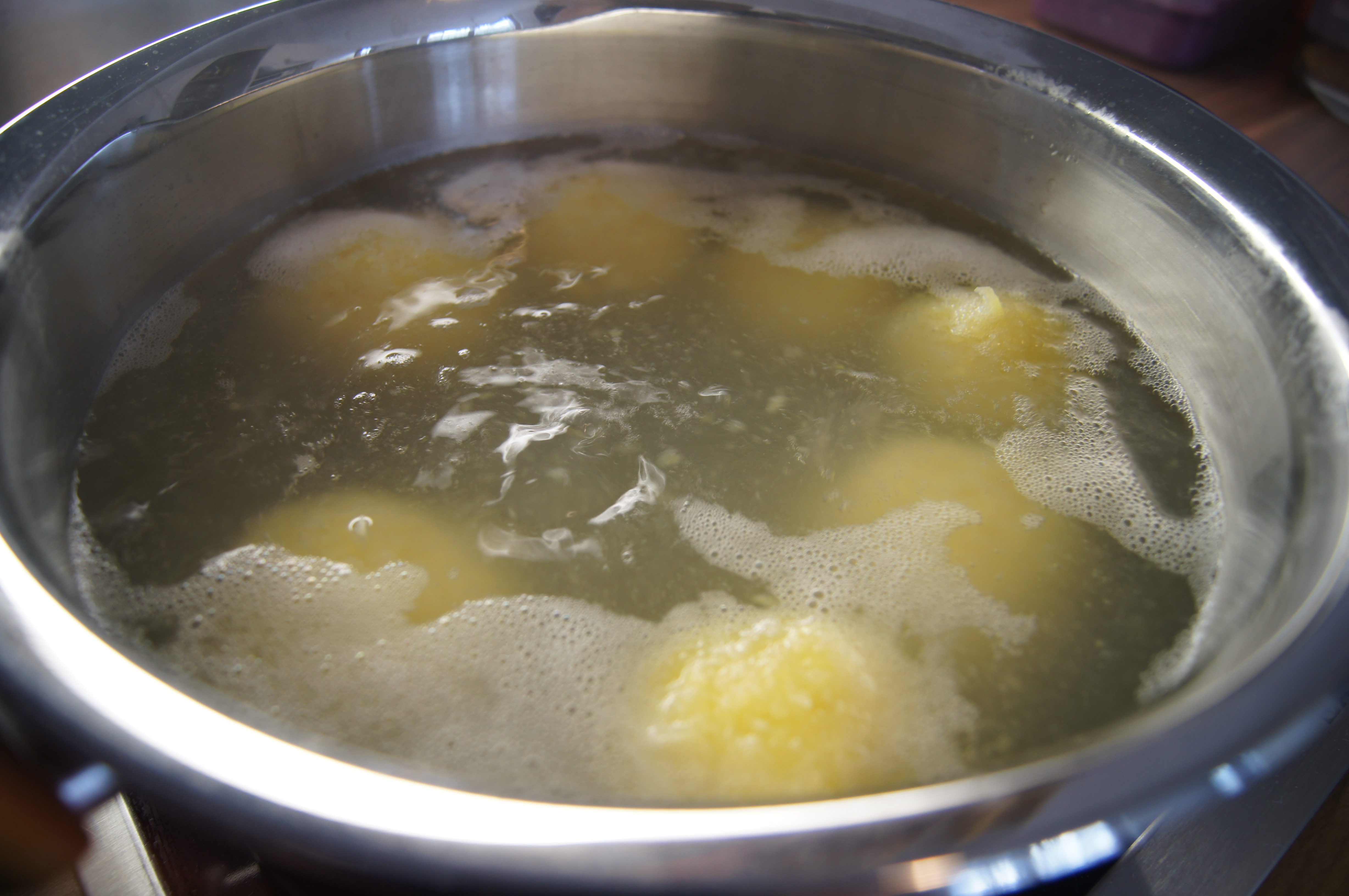 Making of Thüringer Klöße. Dumplings in simmering water